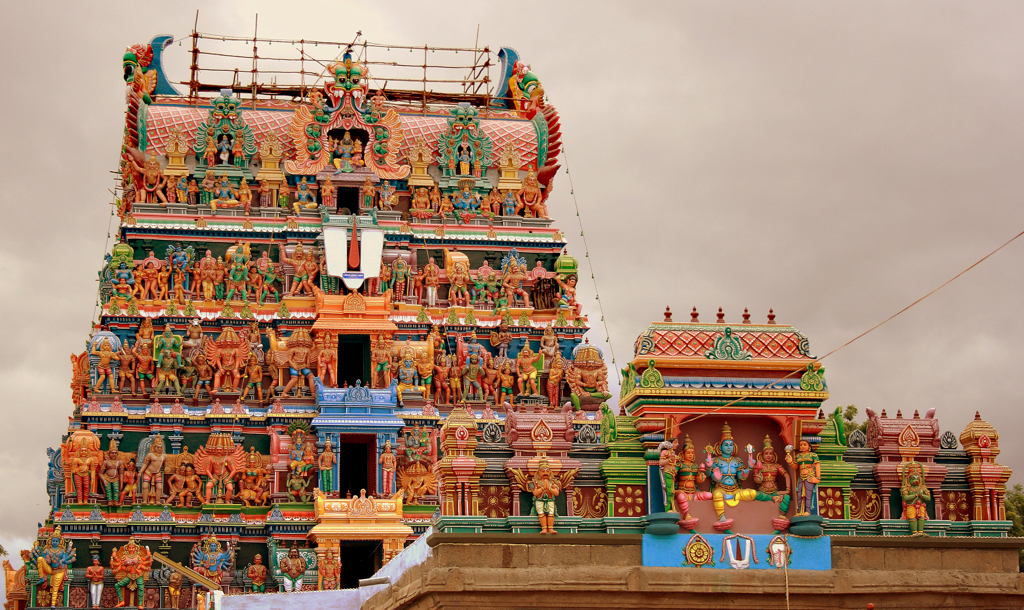 It is picture of Azhagiyamannar Rajagopalaswamy Temple,Palayamkottai,Tirunelveli,India,taken by me